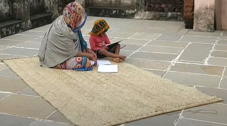 Date Palm Leaf Pati